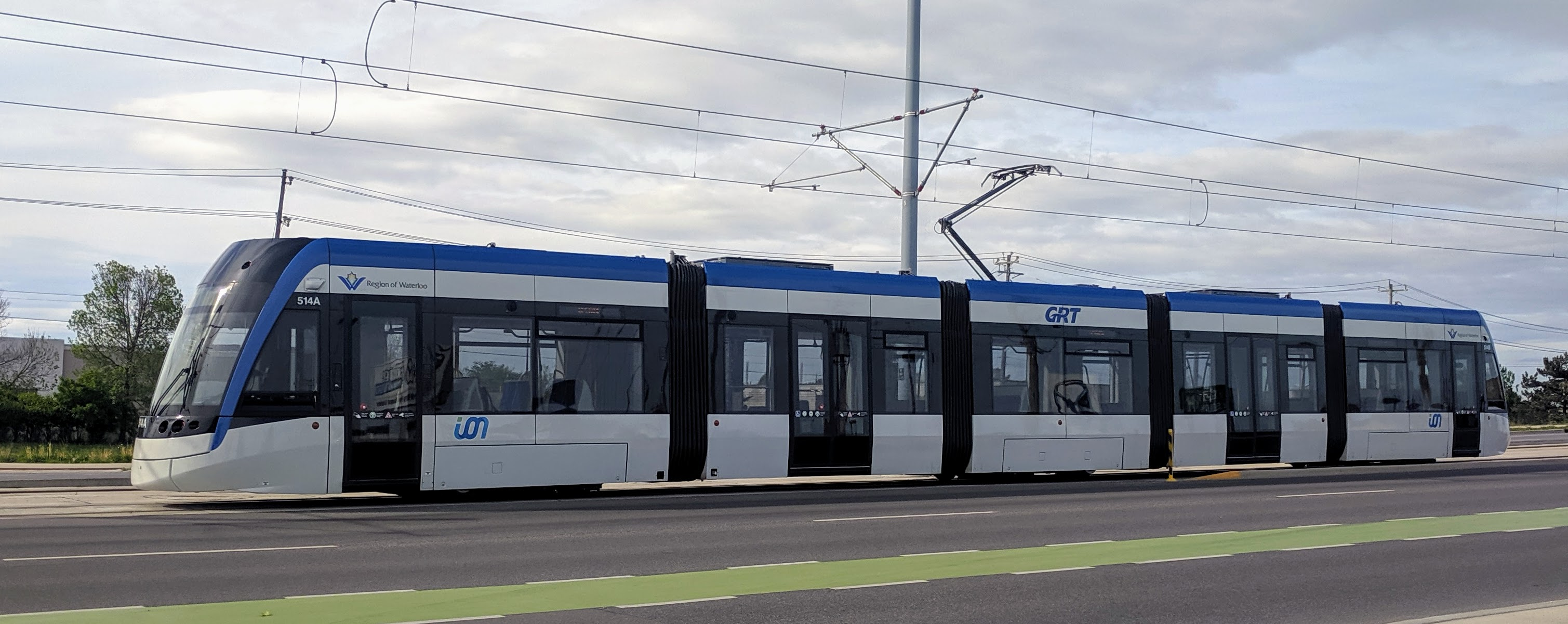 Bombardier Flexity Freedom, Ion unit 514. Photographed at Northfield Drive in service livery.